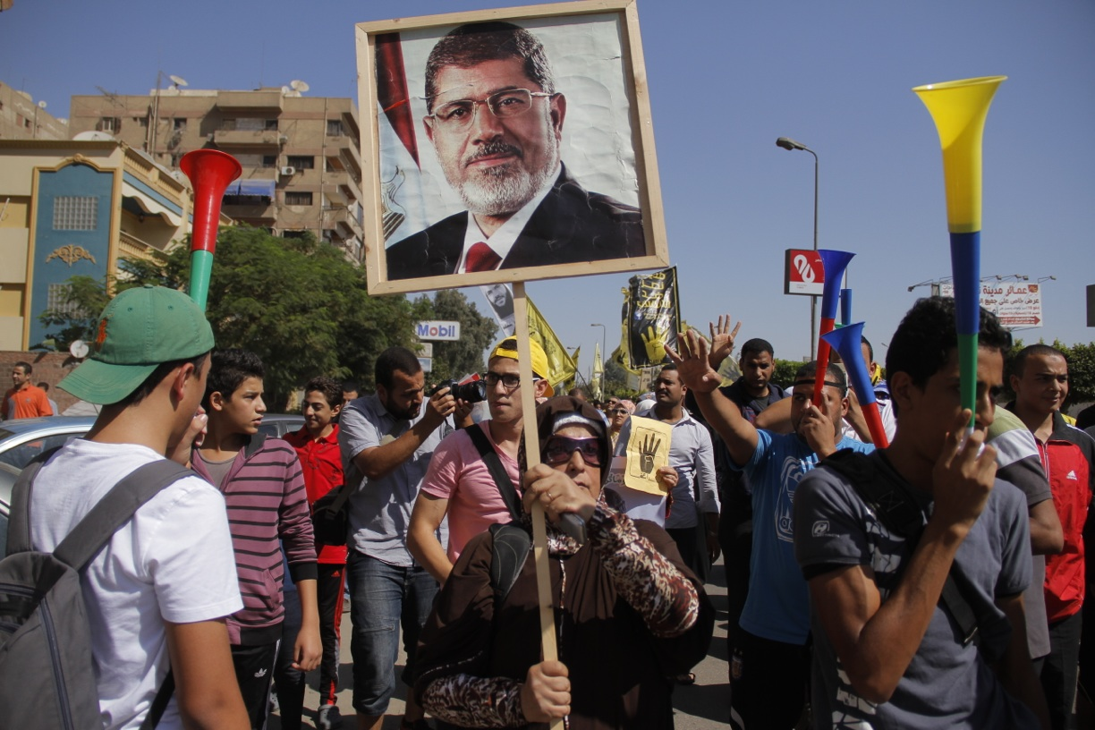 Original description: "Protesters hold up a poster of ousted Egyptian President Mohamed Morsi, Nasr City, Cairo, Oct. 11, 2013. (Hamada Elrasam for VOA)"